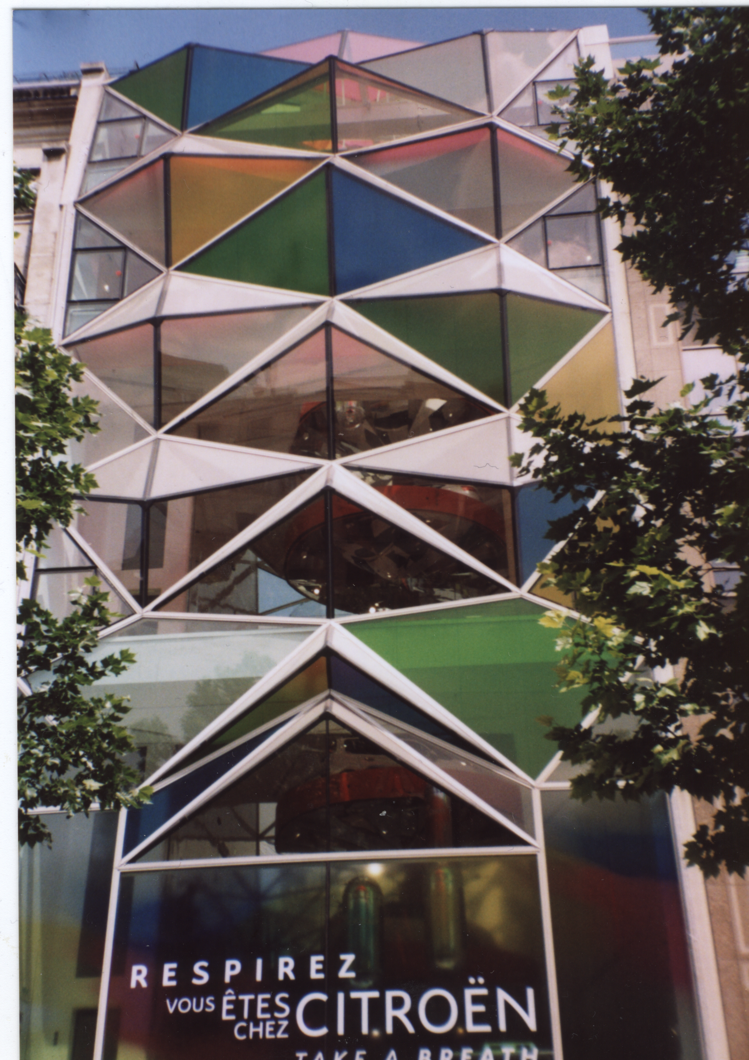 A photo of the Citroen Stand at Champs Elisee